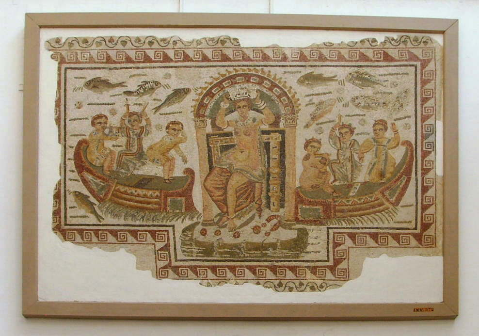 A mosaic in the Bardo National Museum